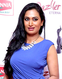 Shwetha Srivatsav at Filmfare South Awards 2014